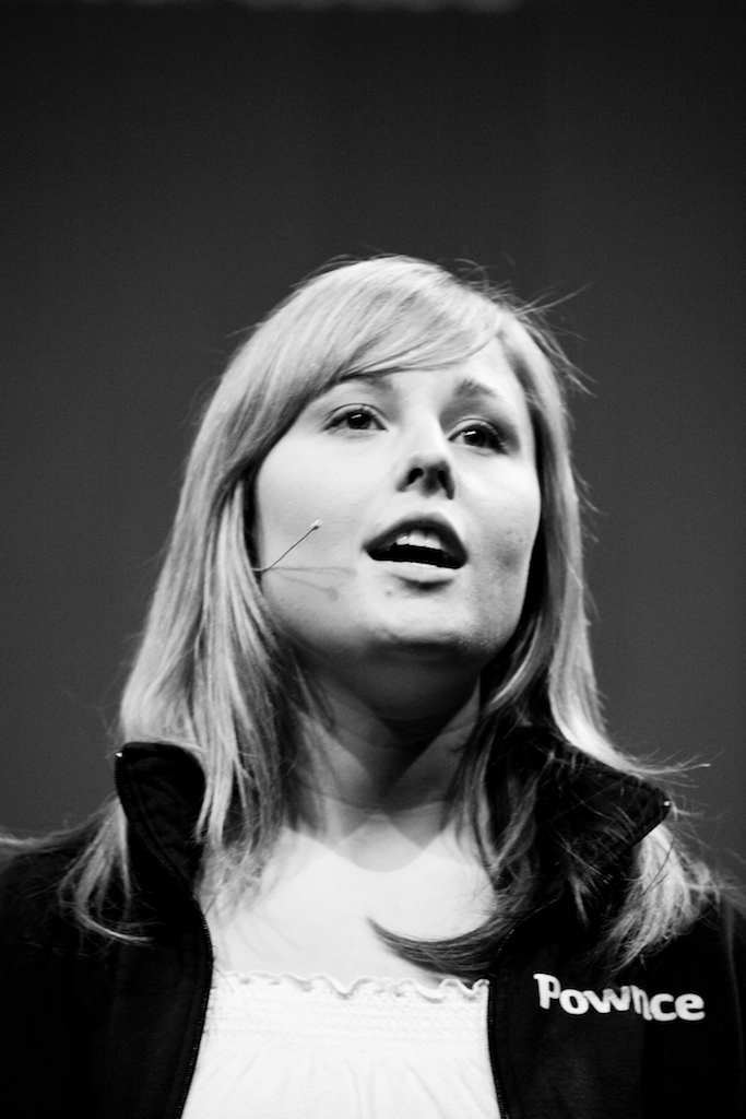 Taken during The Next Web Conference 2008 in Amsterdam, The Netherlands on 3 and 4 April, 2008.